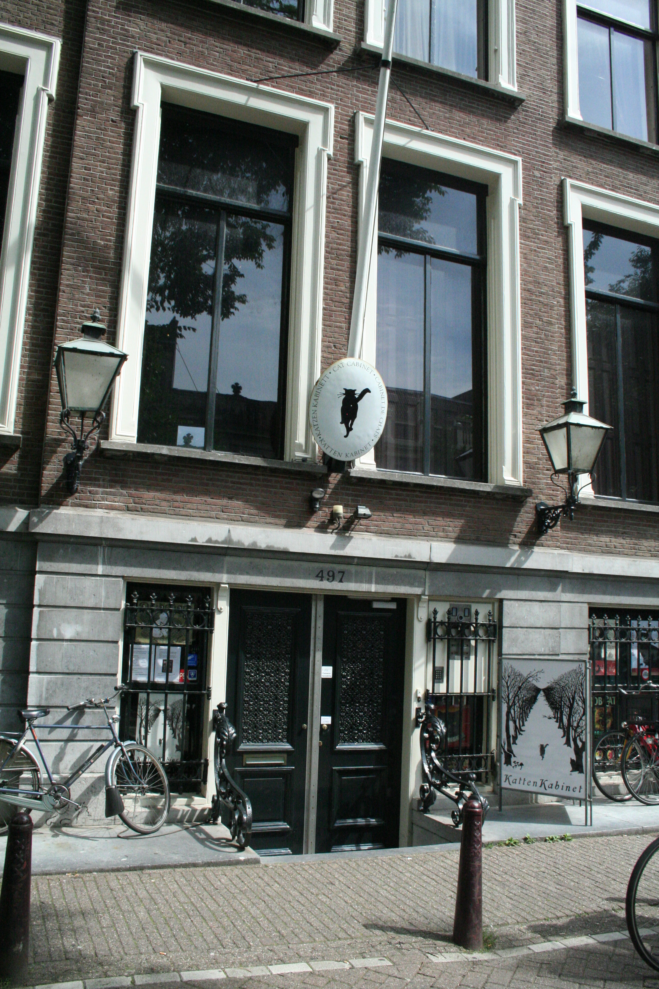 Amsterdam's Cat Cabinet (De Kattenkabinet) enterance - Photo by PERSIAN DUTCH NETWORK